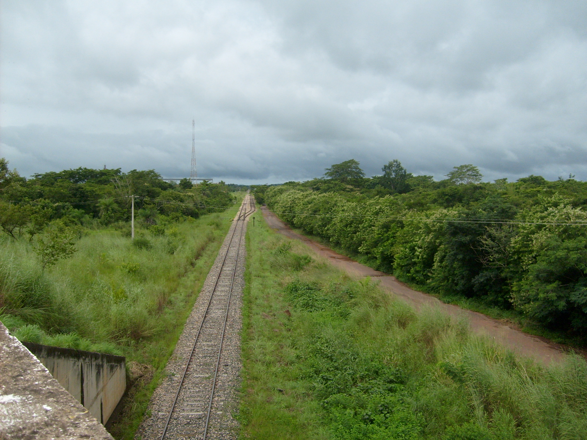 North-South Railway in Brazil